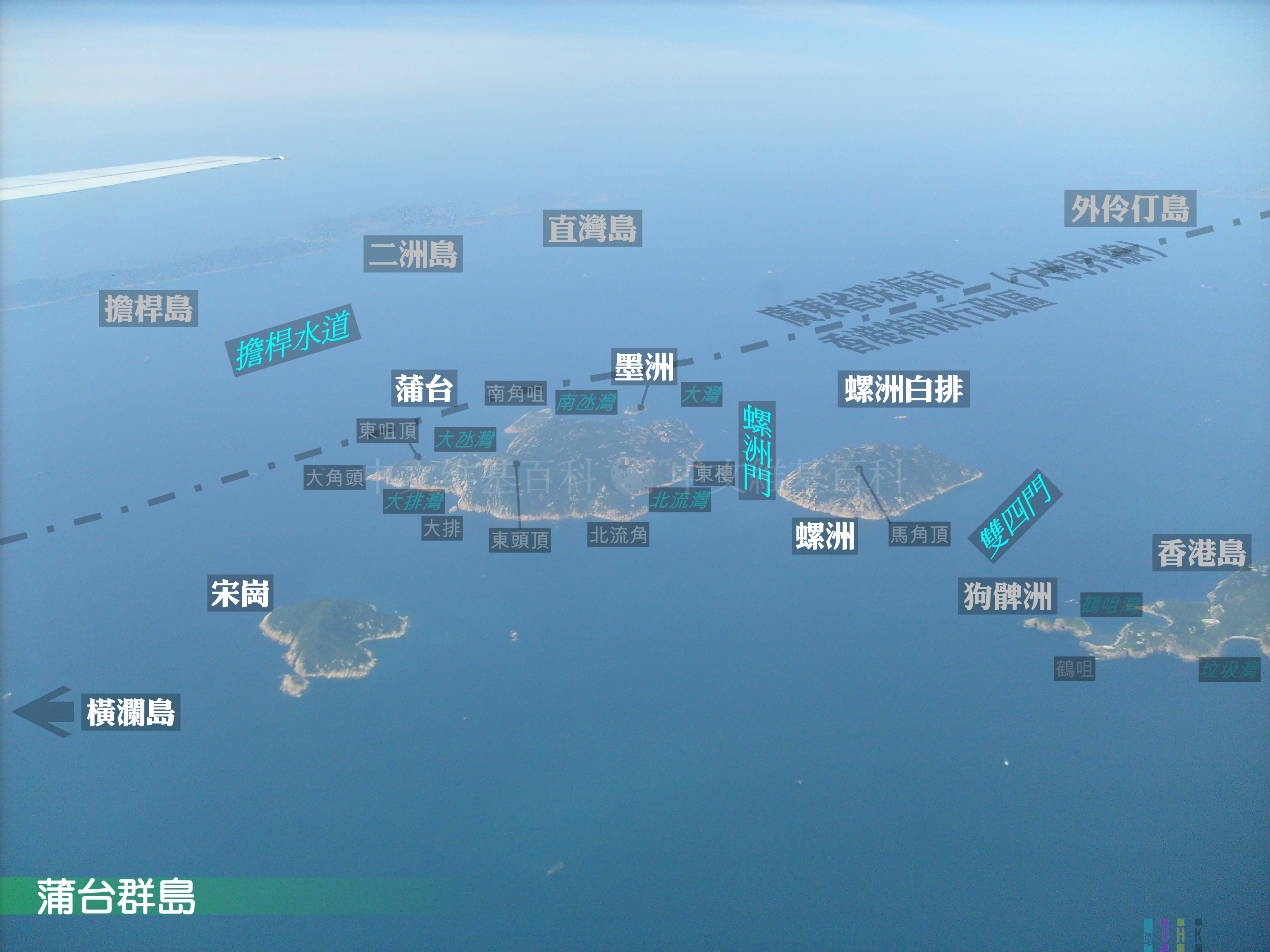 Po Tai Islands, Hong Kong 中文（香港）: 香港蒲台群島